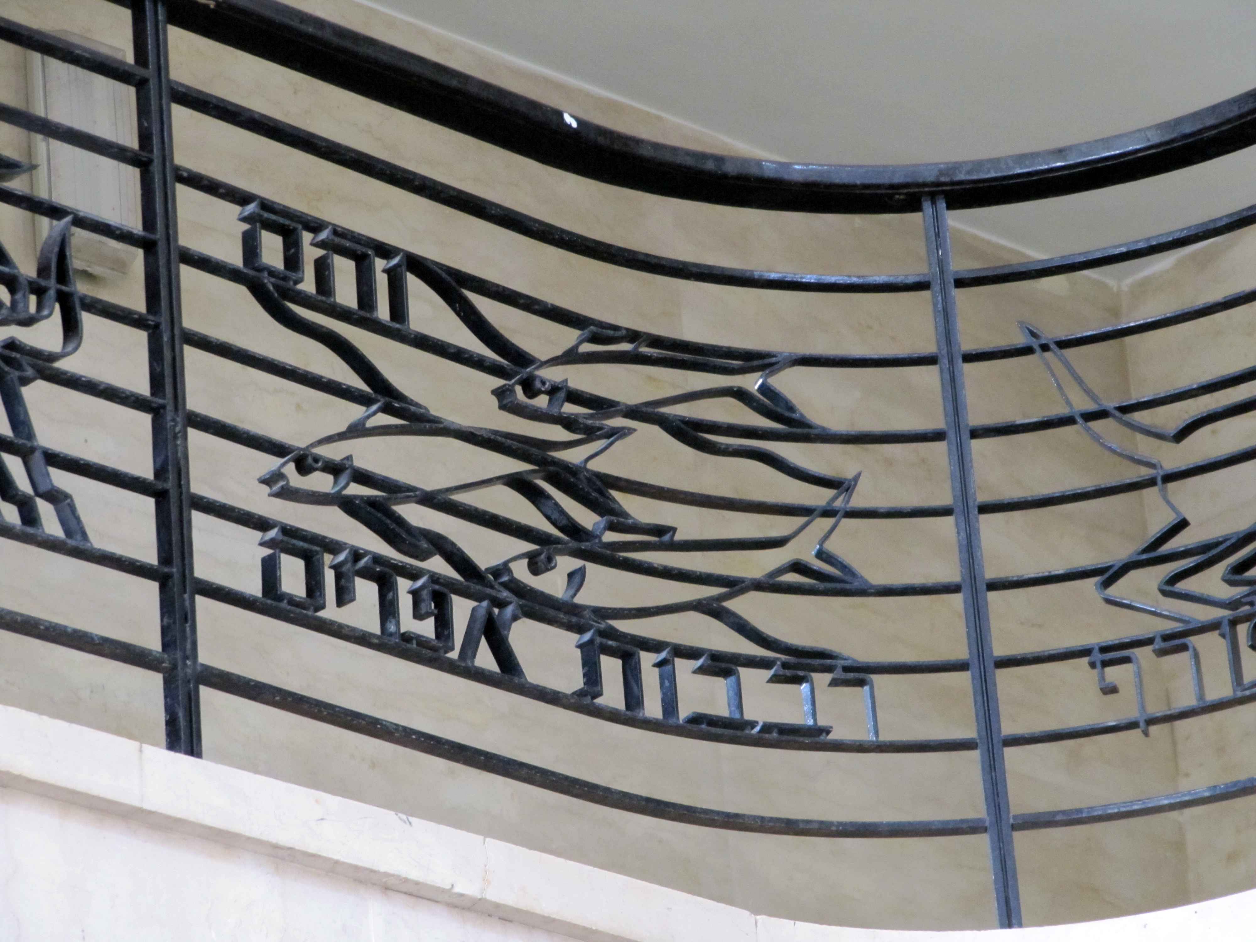 Hebrew University campus on Mount Scopus, Jerusalem